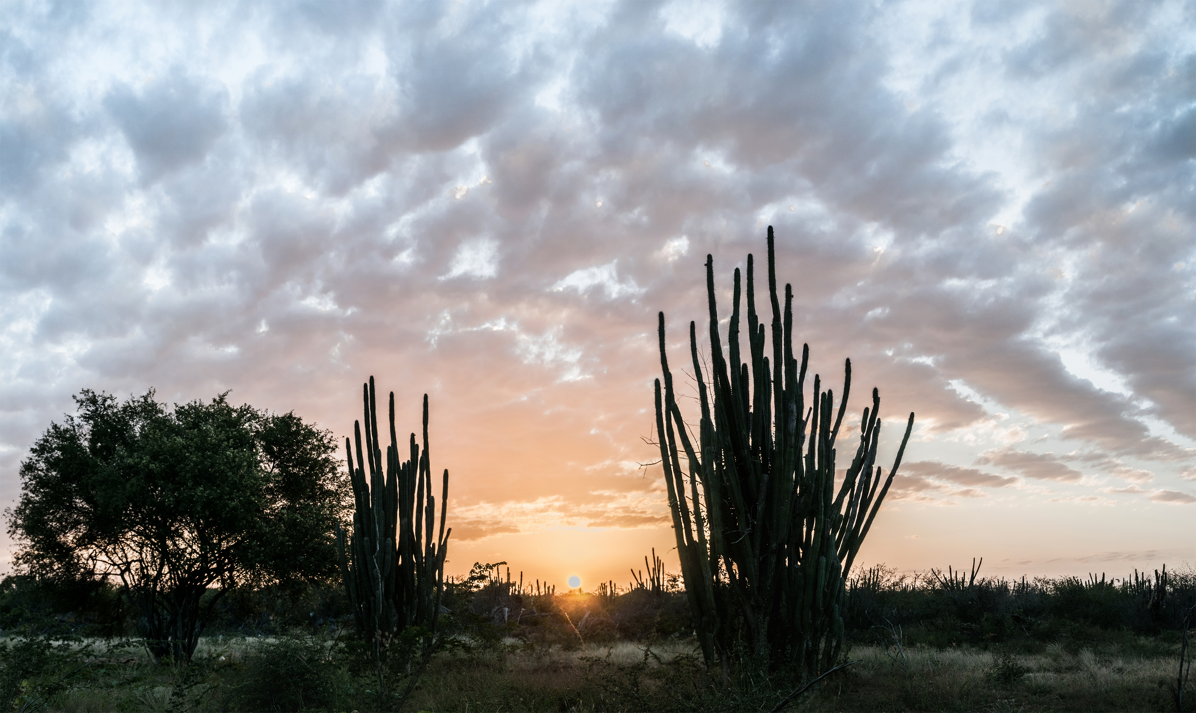 Xerophytic forest in Margarita island